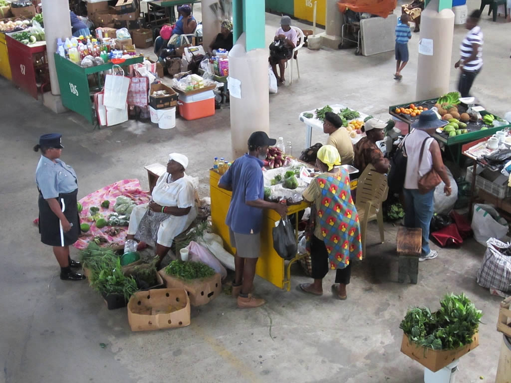 vegetable sales at St. John's Public Market.